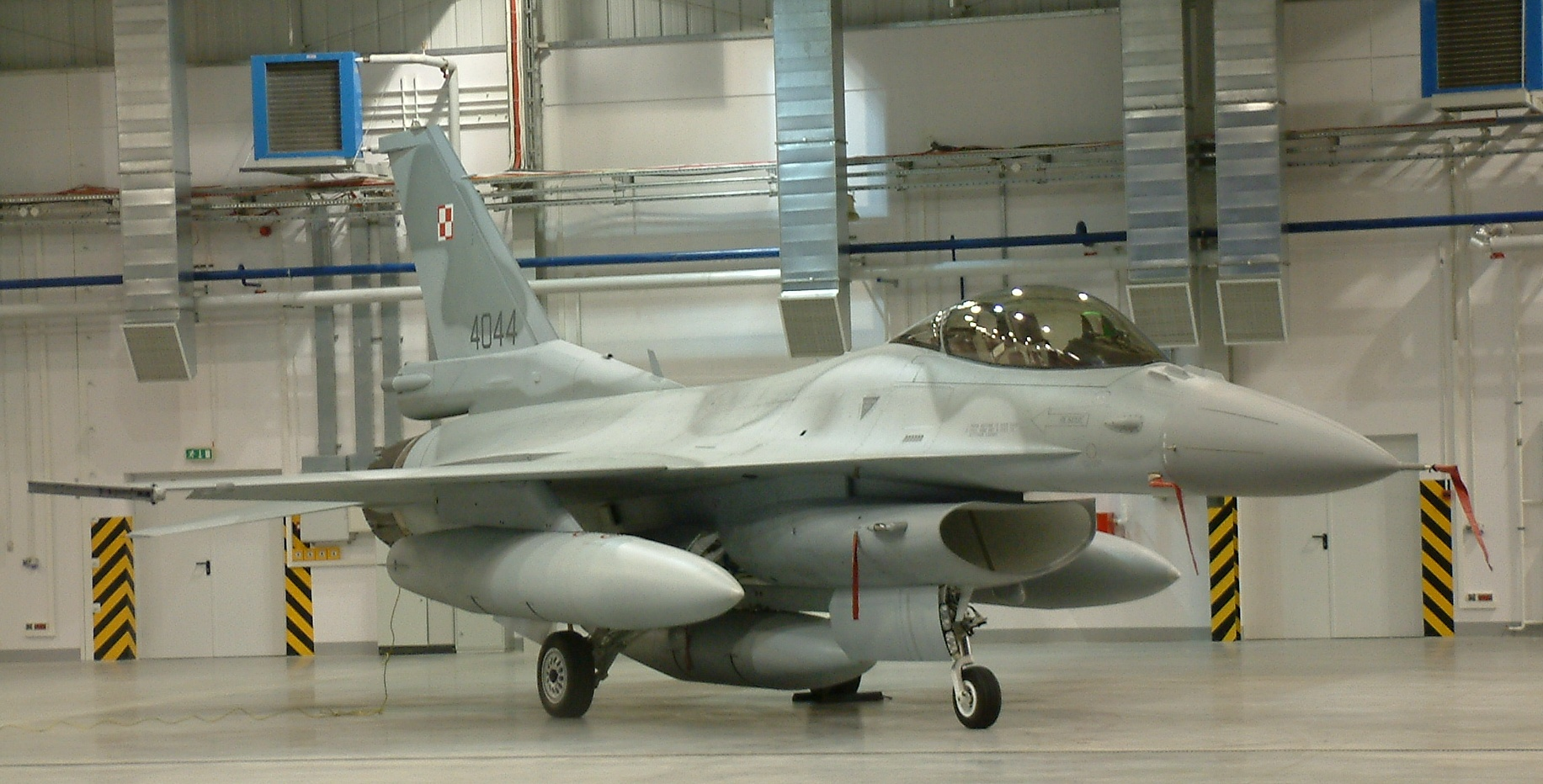 F-16C block 52+ #4044 of Polish Air Force, 31st Air Base Poznań-Krzesiny